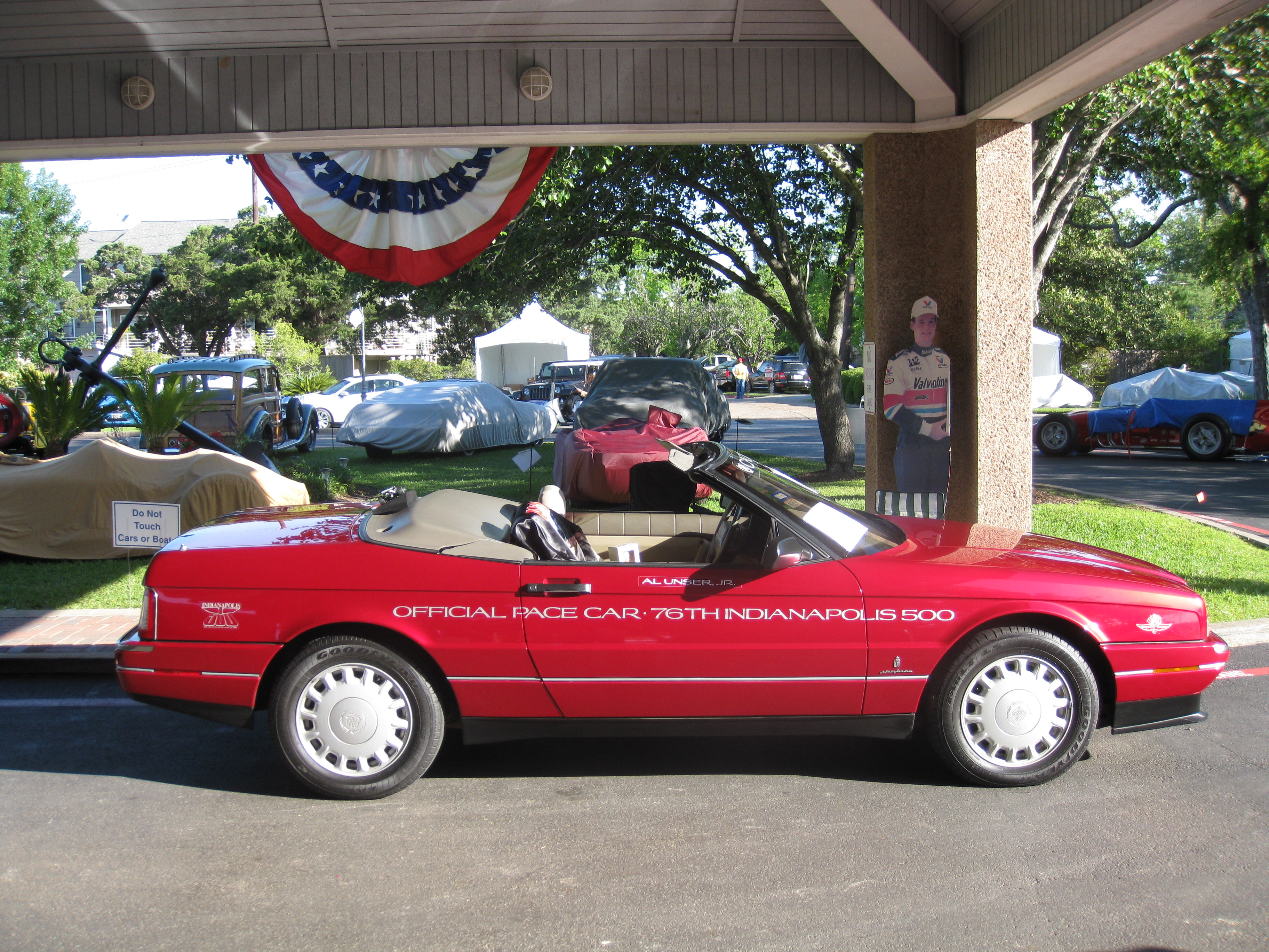 1993 Cadillac Allante Indy 500 Pace-Festival Car used by Al Unser Jr at the 1992 76th Indy 500 his first Indy 500 win. The dash is signed by both Al Unser Jr and Bobby Unser Wikilink